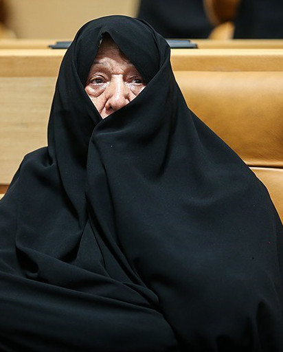 In the conference of Commemoration of Lady of Islamic Republic